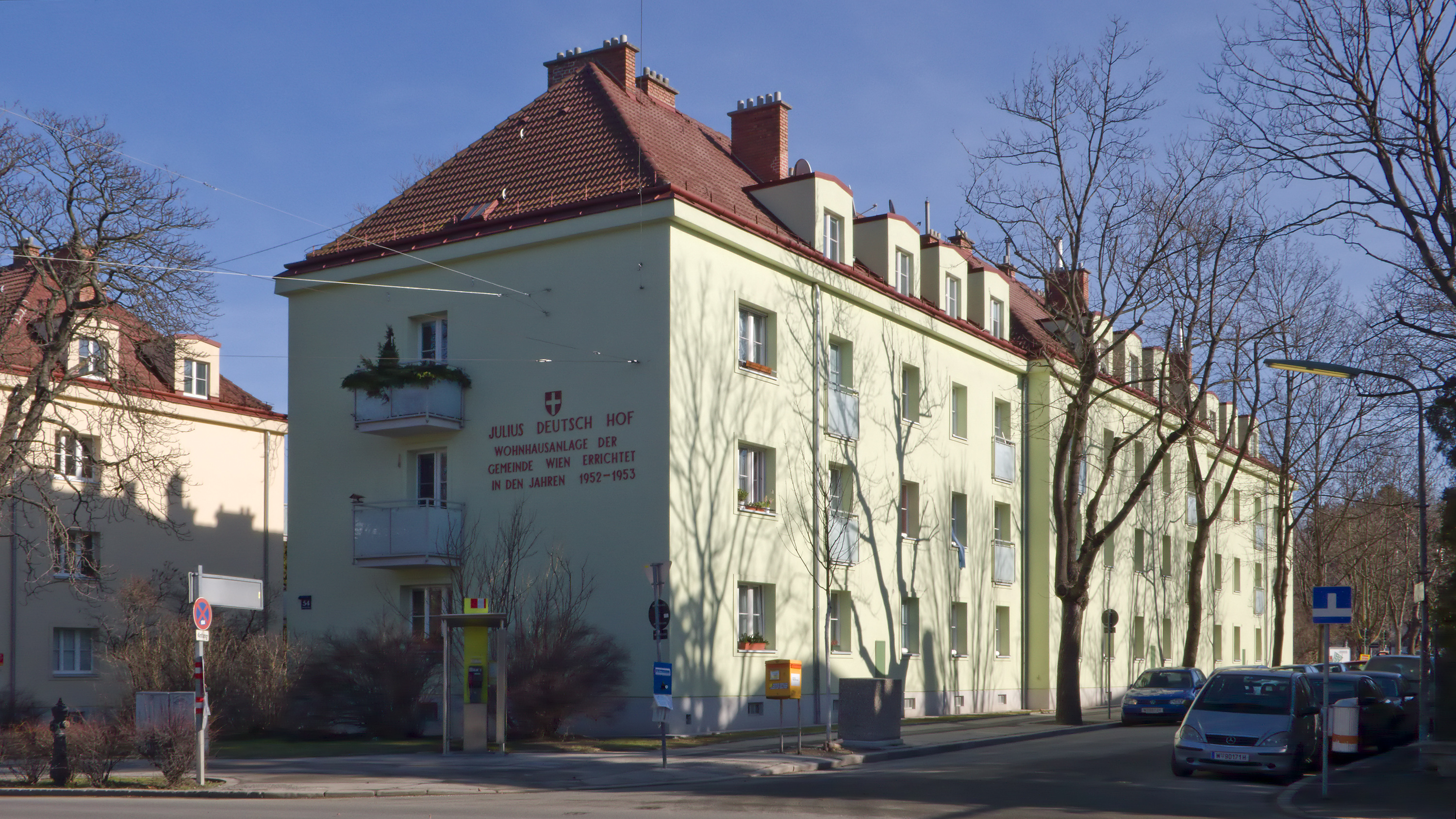 Residential buildings Julius-Deutsch-Hof in Vienna Döbling